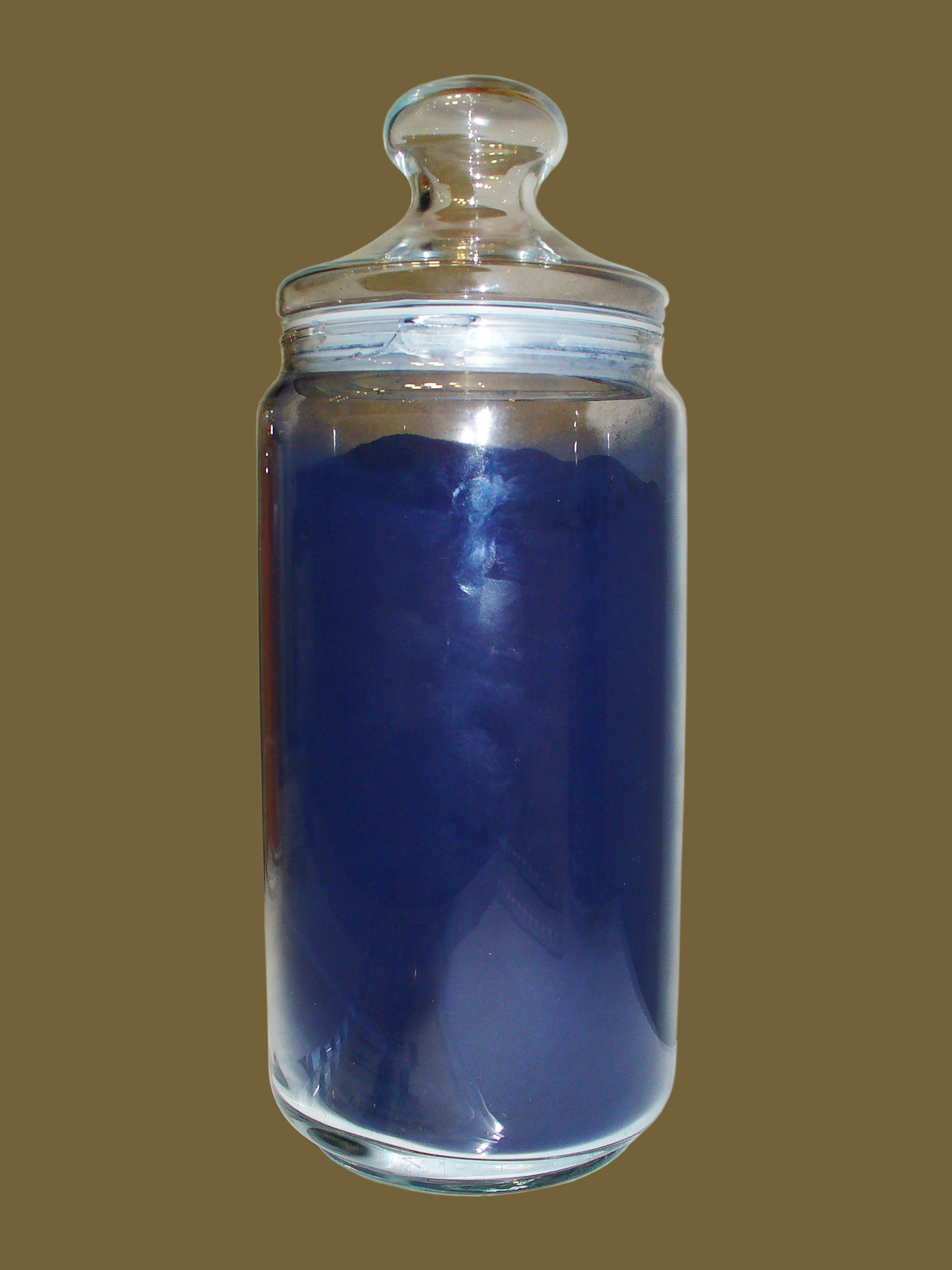 Isatis tinctoria, Brassicaceae, Woad, Indigo from Isatis tinctoria; Staatliches Museum für Naturkunde Karlsruhe, Germany.